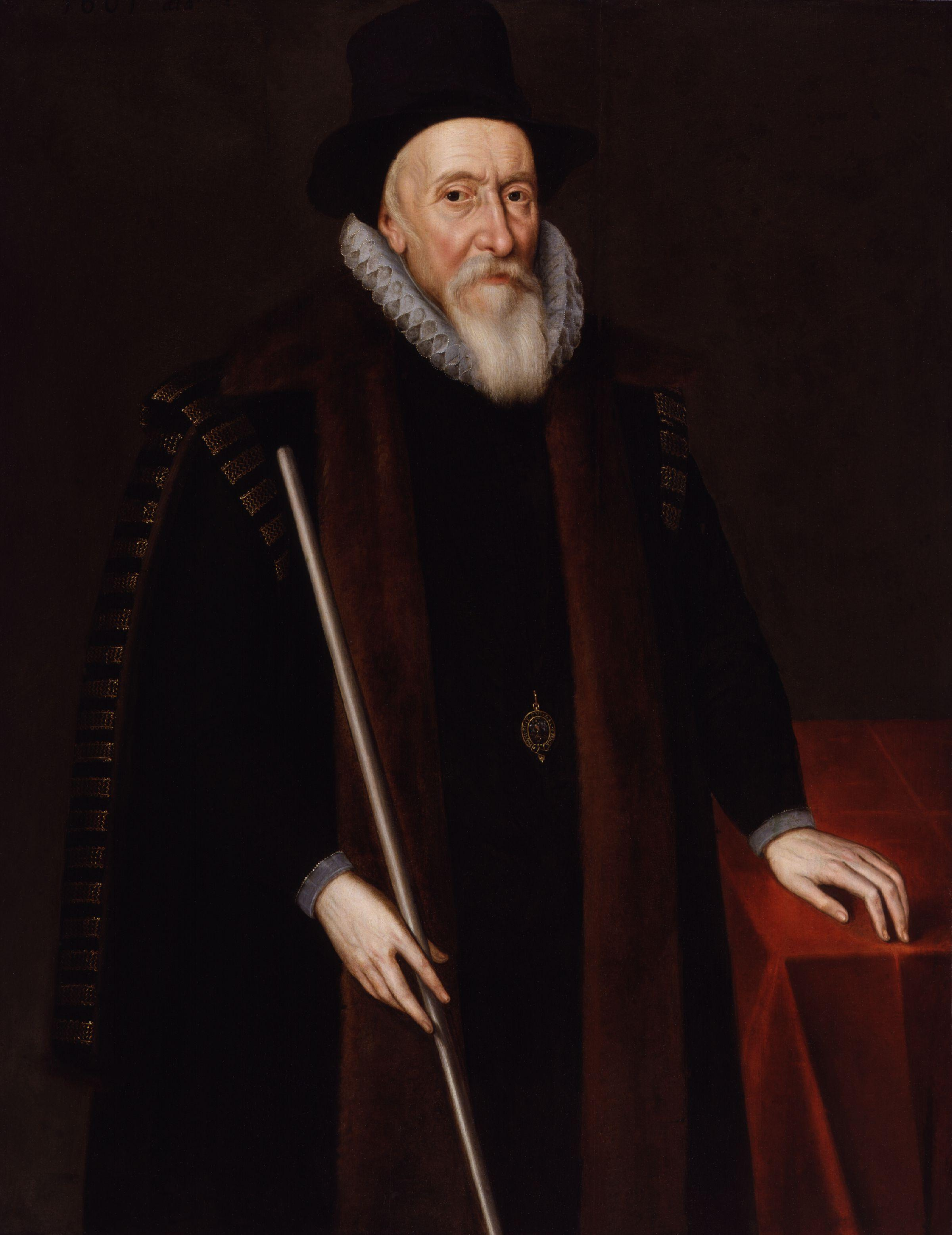 Thomas Sackville, 1st Earl of Dorset, by John De Critz the Elder (died 1647). All images in this batch have been confirmed as author died before 1939 according to the official death date listed by the NPG.